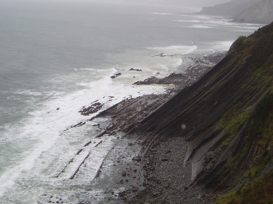 Marearteko zabalgune baten argazki bat, Deba eta Zumaia artean artean atera nuen argazkia. Copyleft-a ezartzen diot. This is a photograph of a Flysch, I took it in a place located between Deba and Zumaia. It's copyleft.